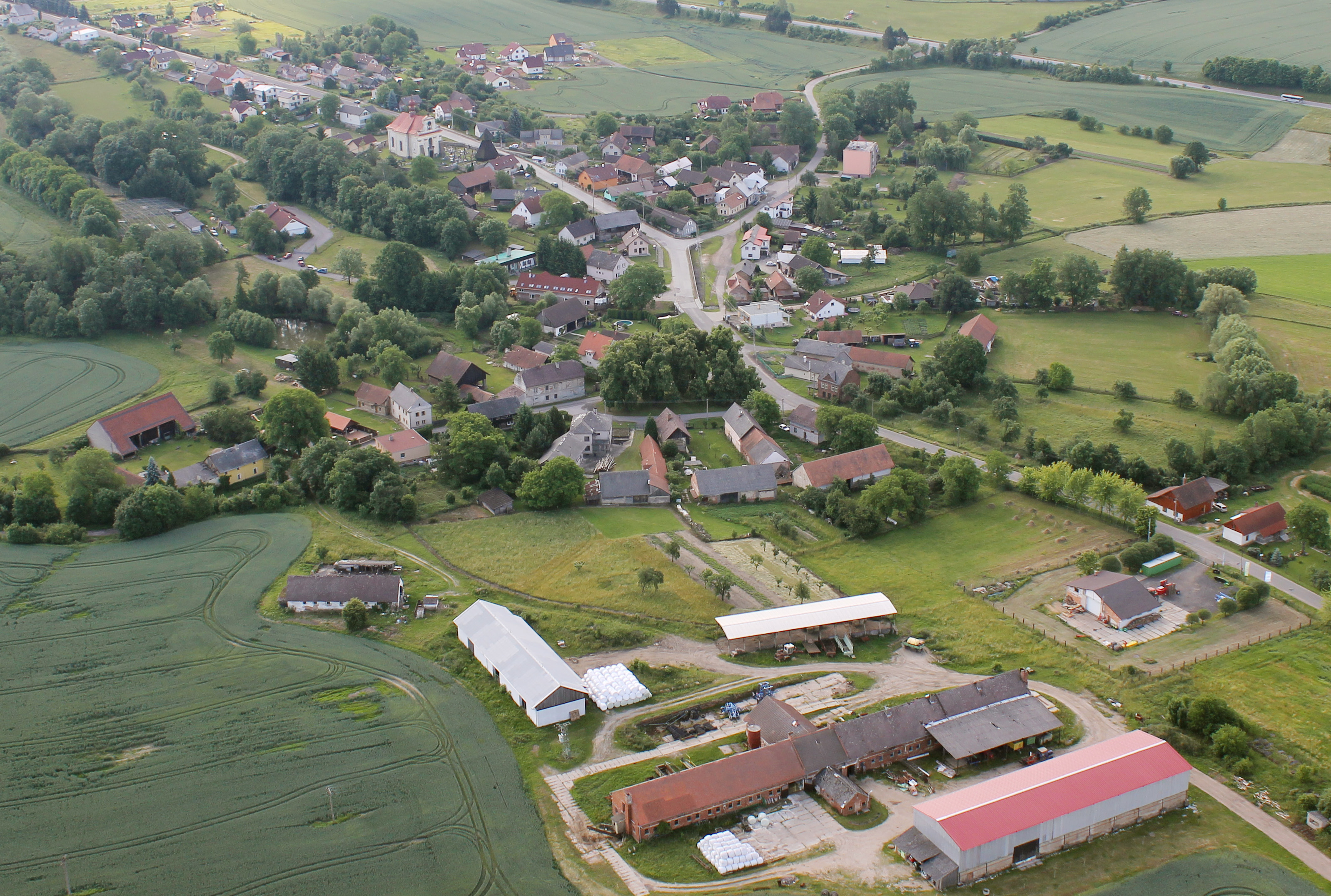 aerial photo